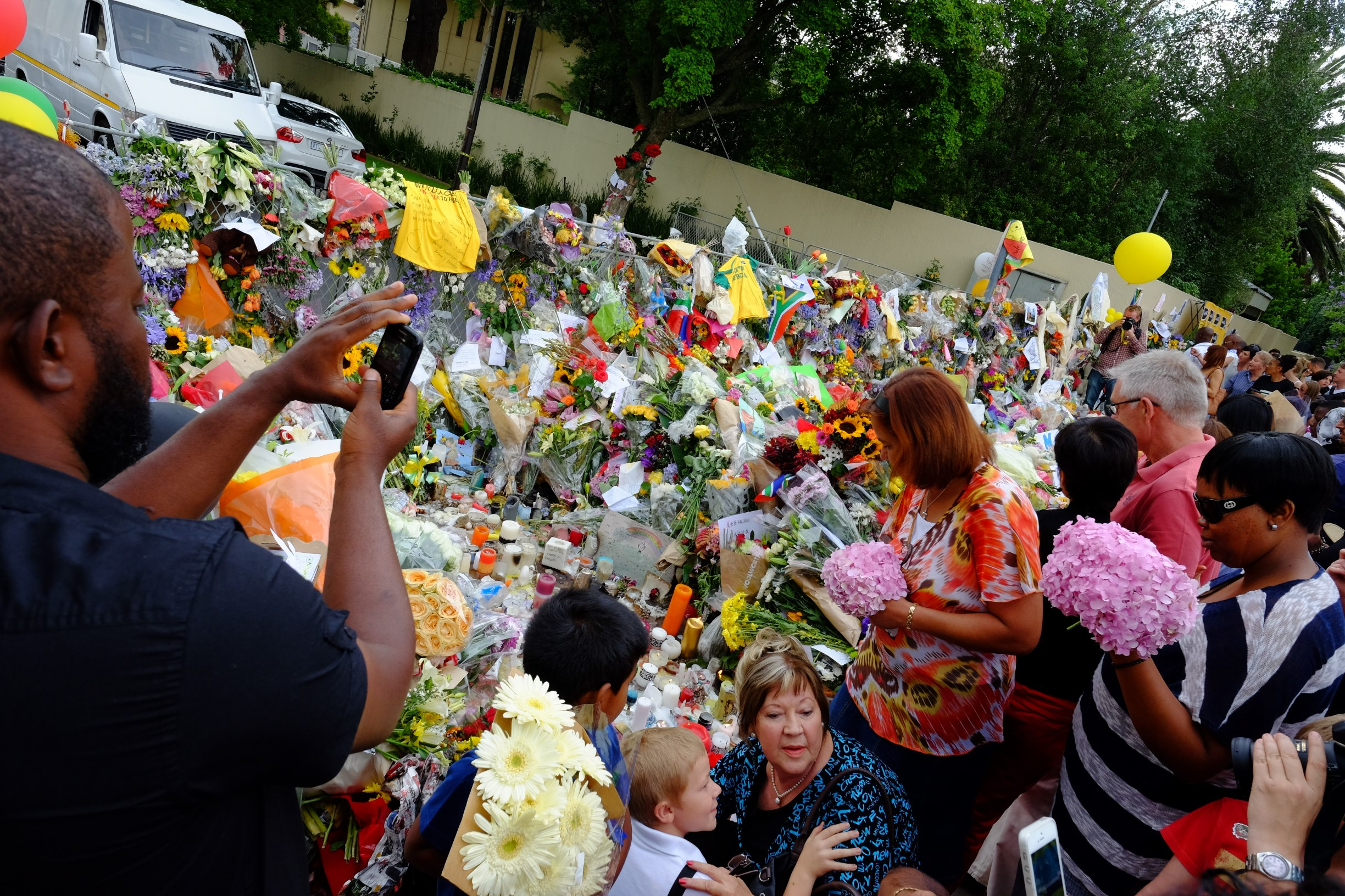 Madiba's House 014 – Taken by Rob Dennison at Nelson Mandela's house in Houghton, Johannesburg, South Africa